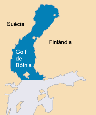 Map of Gulf of Botnia, Catalan version